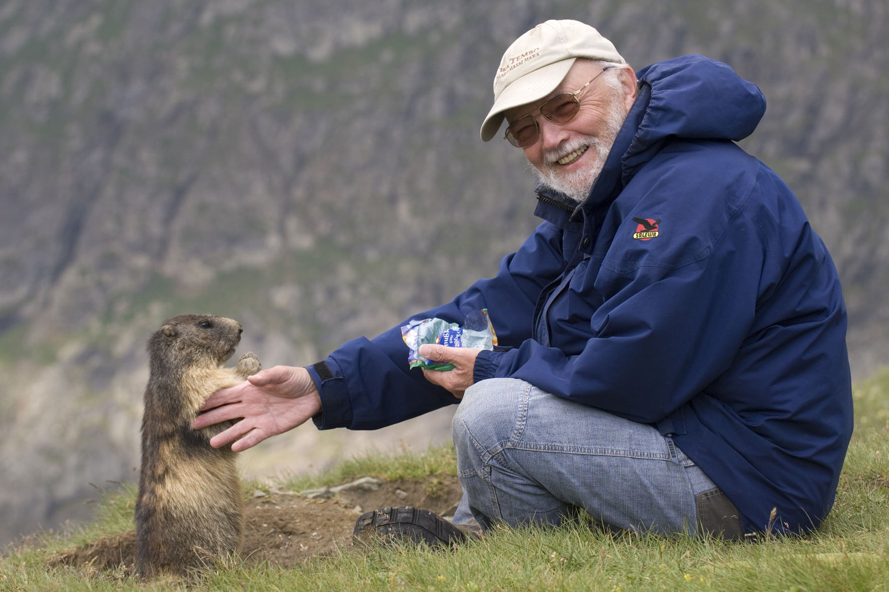 Nature photographer Fritz Pölking at Nationalpark Hohe Tauern, Austria